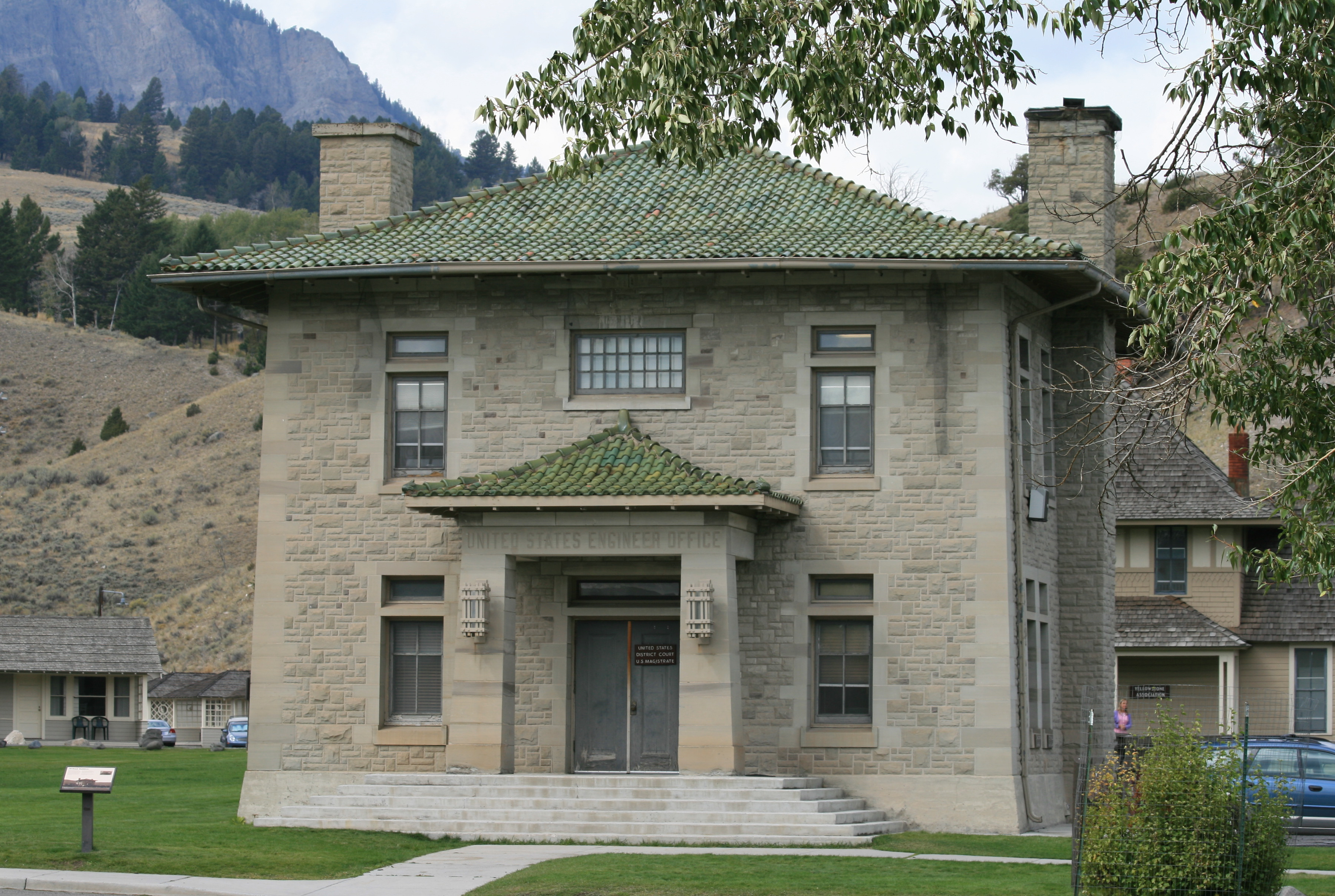 Fort Yellowstone, US Engineer Office, Yellowstone National Park, Wyoming, USA